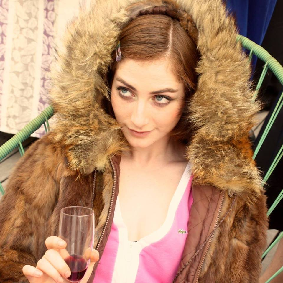 Deby Medrez Pier at a party in March 2015.